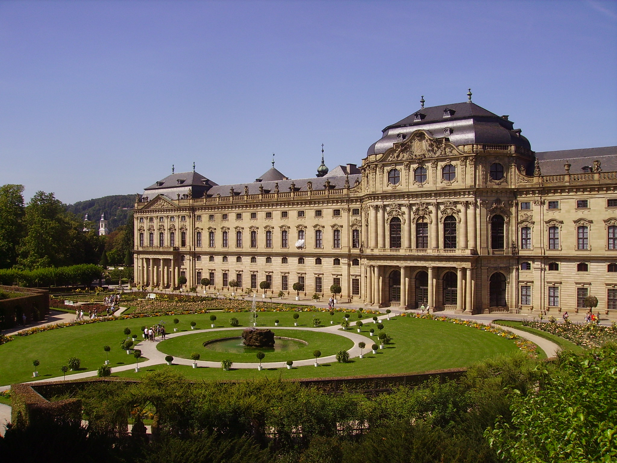 Backside of the Residence, Würzburg